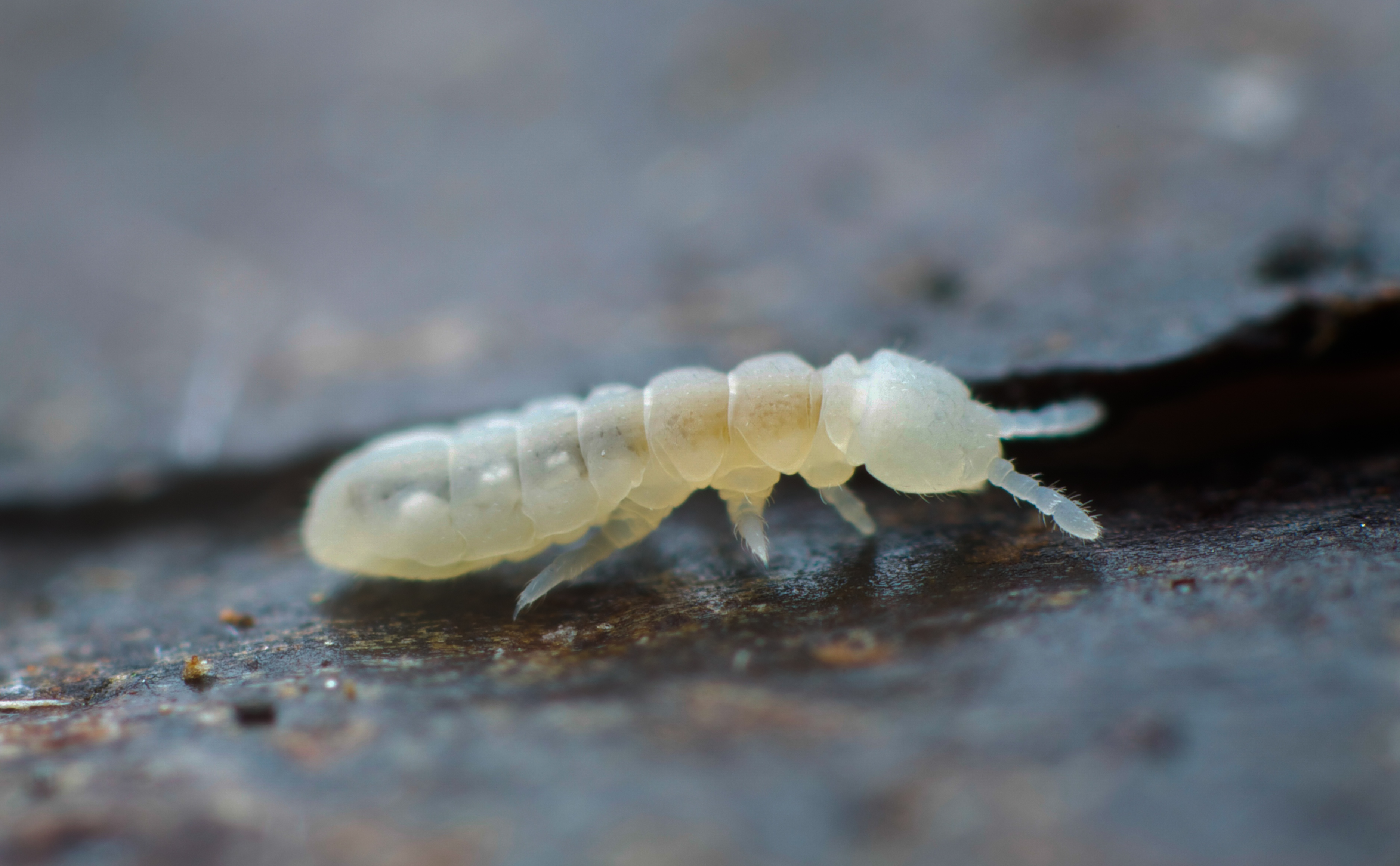 Original description on Flickr: This one was taken in Melbourne botanic gardens, Australia, so probably Deuteraphorura inermis.